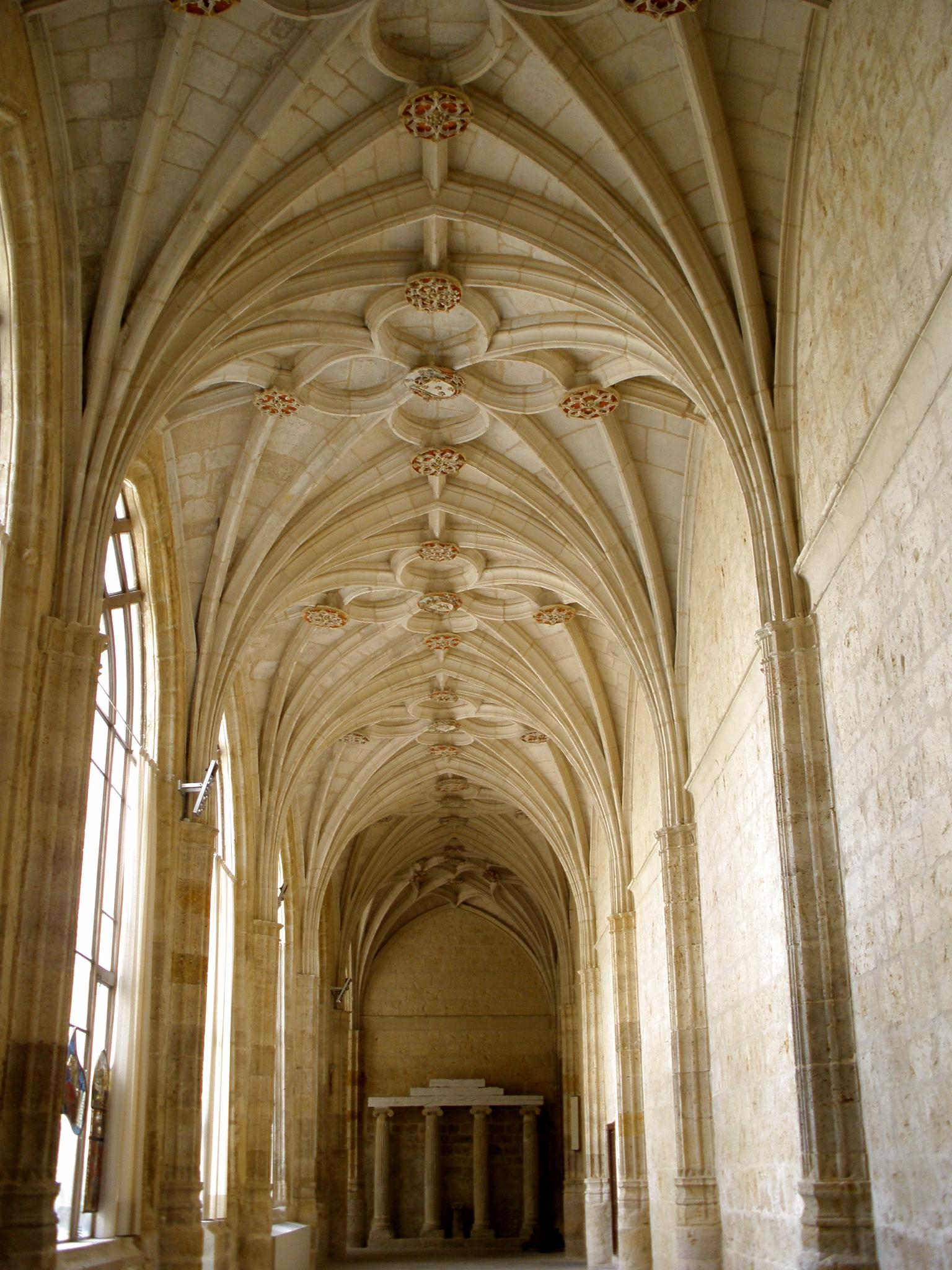 Claustro de la Catedral de Palencia